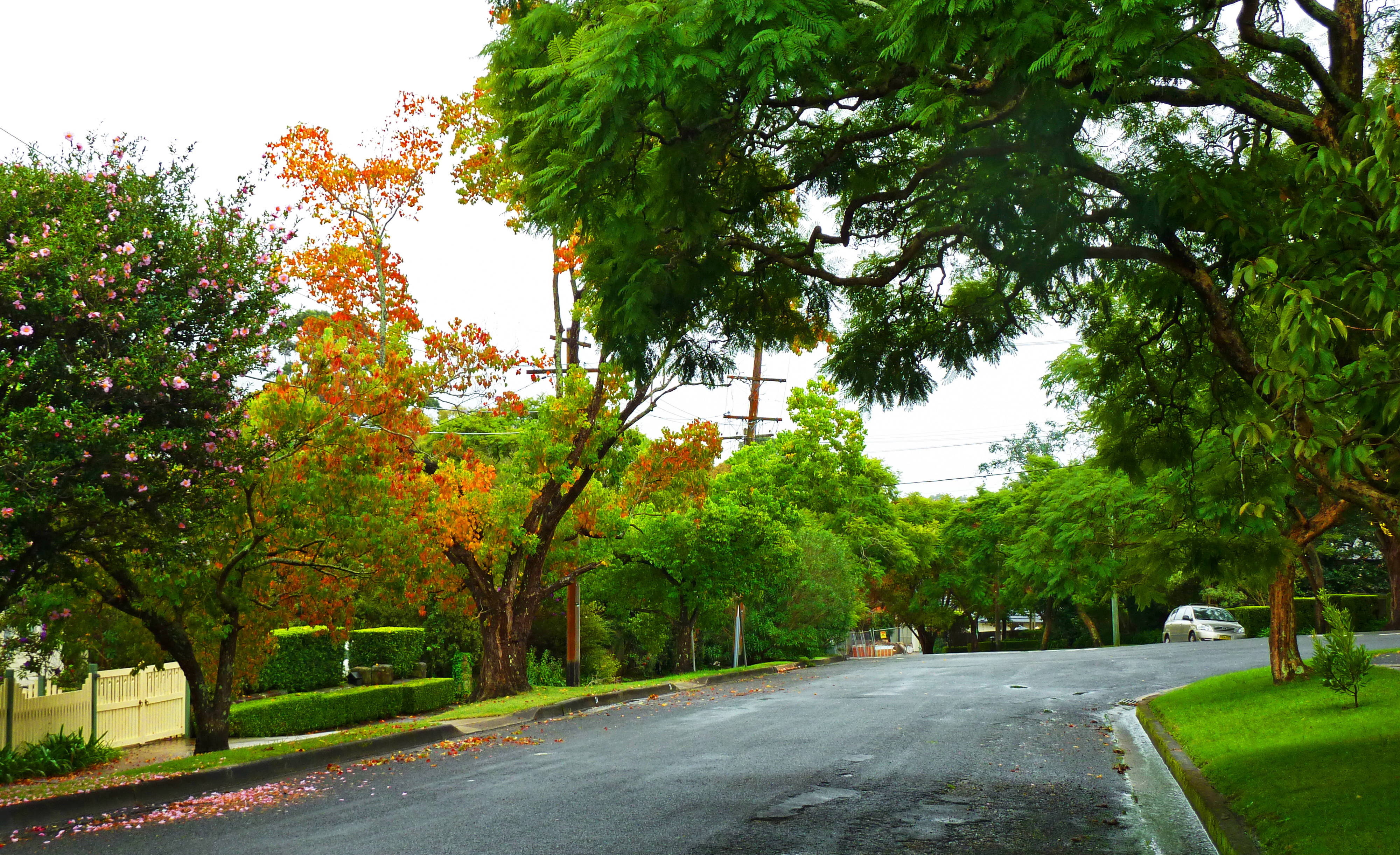 Waimea Road, Lindfield, New South Wales, Australia.